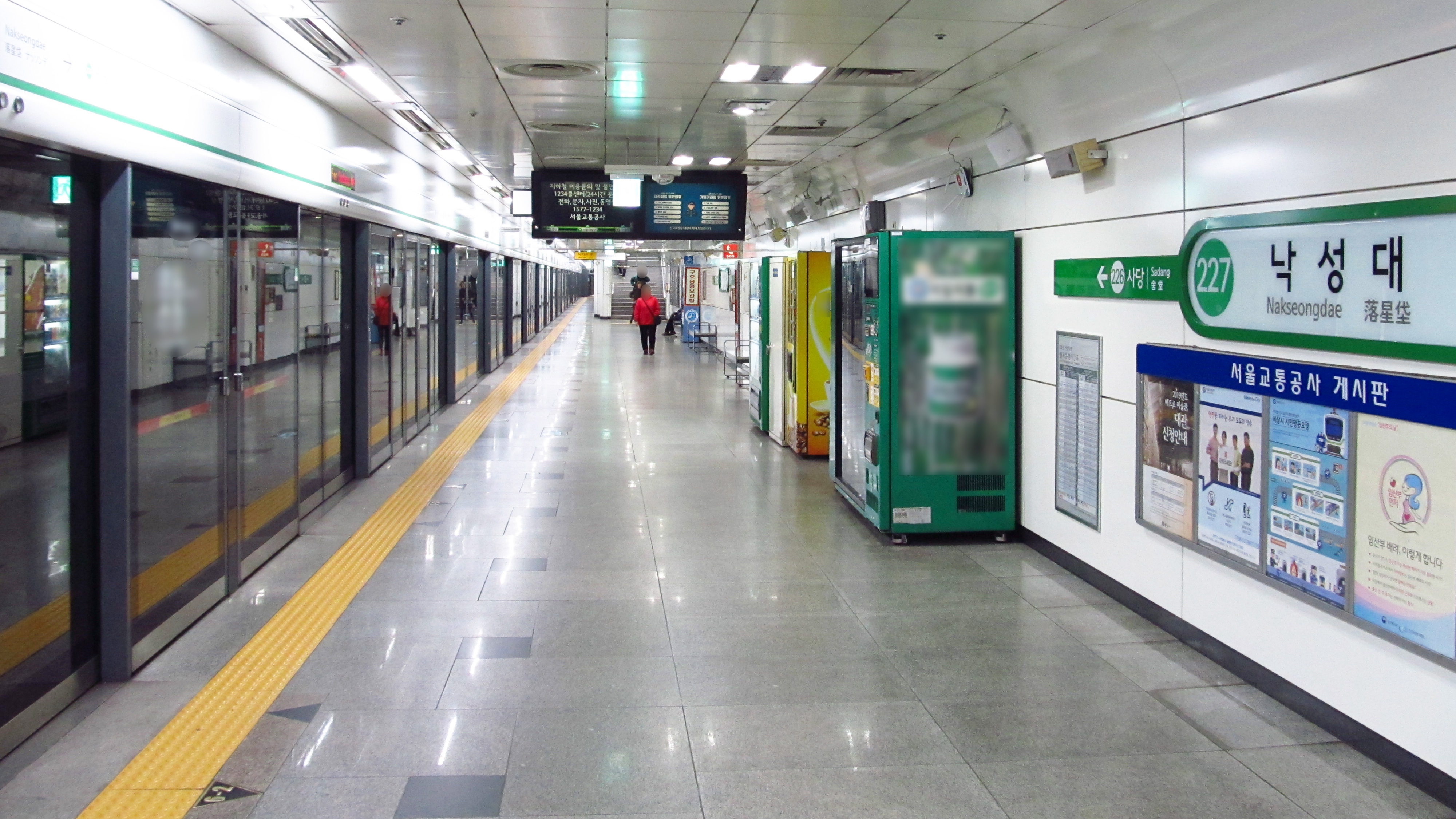 The platform at Nakseongdae Station on Seoul Subway Line 2 in Gwanak-gu, Seoul, Republic of Korea(South Korea)